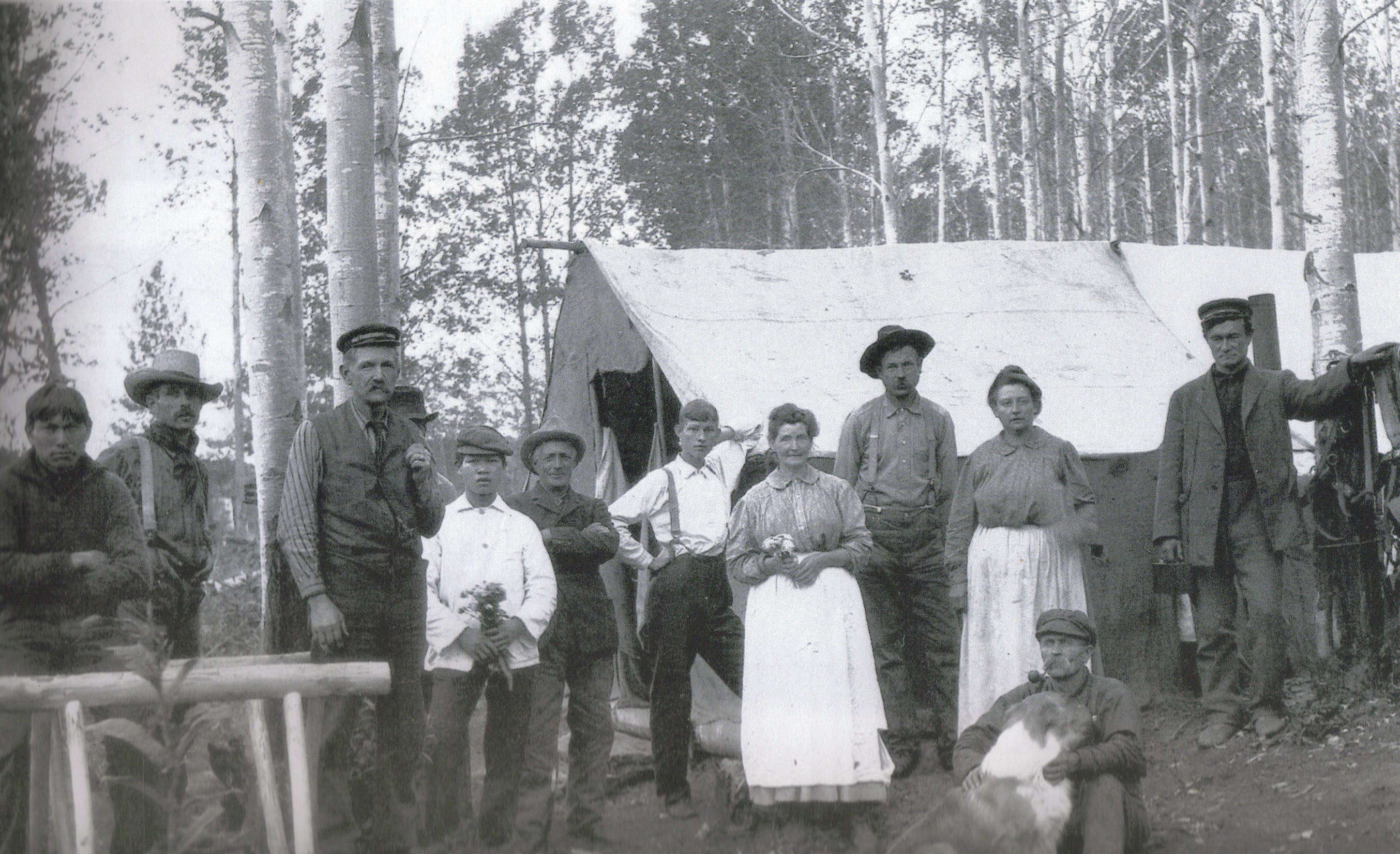 Captain John Bonser (third from left) near Nechako River. Photo taken July 29th, 1909.